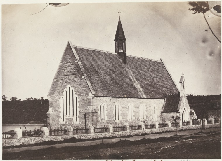 Photograph of Perth Boys School, St George's Terrace, taken by Alfred Hawes Stone in 1861.